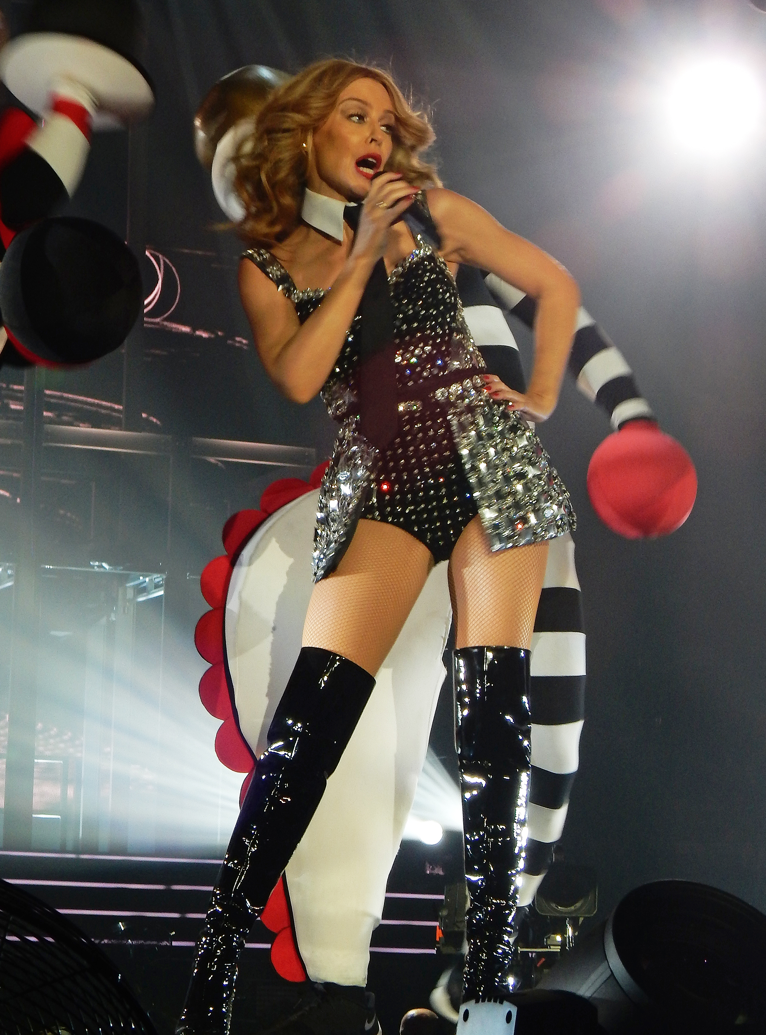 Kylie Minogue - Kiss Me Once Tour - Sheffield - 13.11.14. - 072